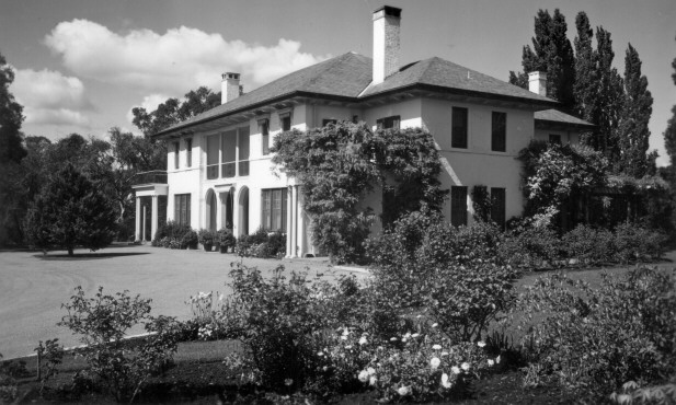 The Prime Ministers Lodge as seen in the 1940's